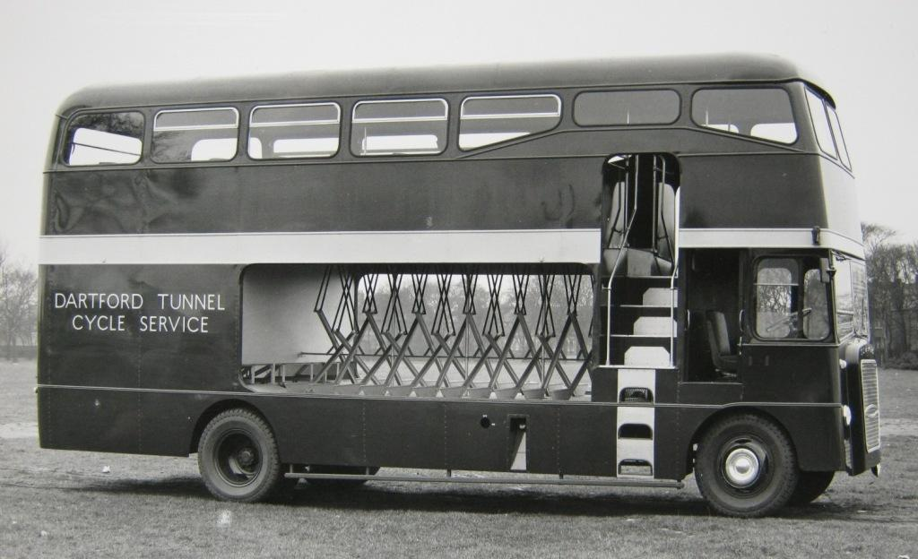 A custom-made bus designed to transport bicycles through the Dartford Tunnel in 1963. Other information